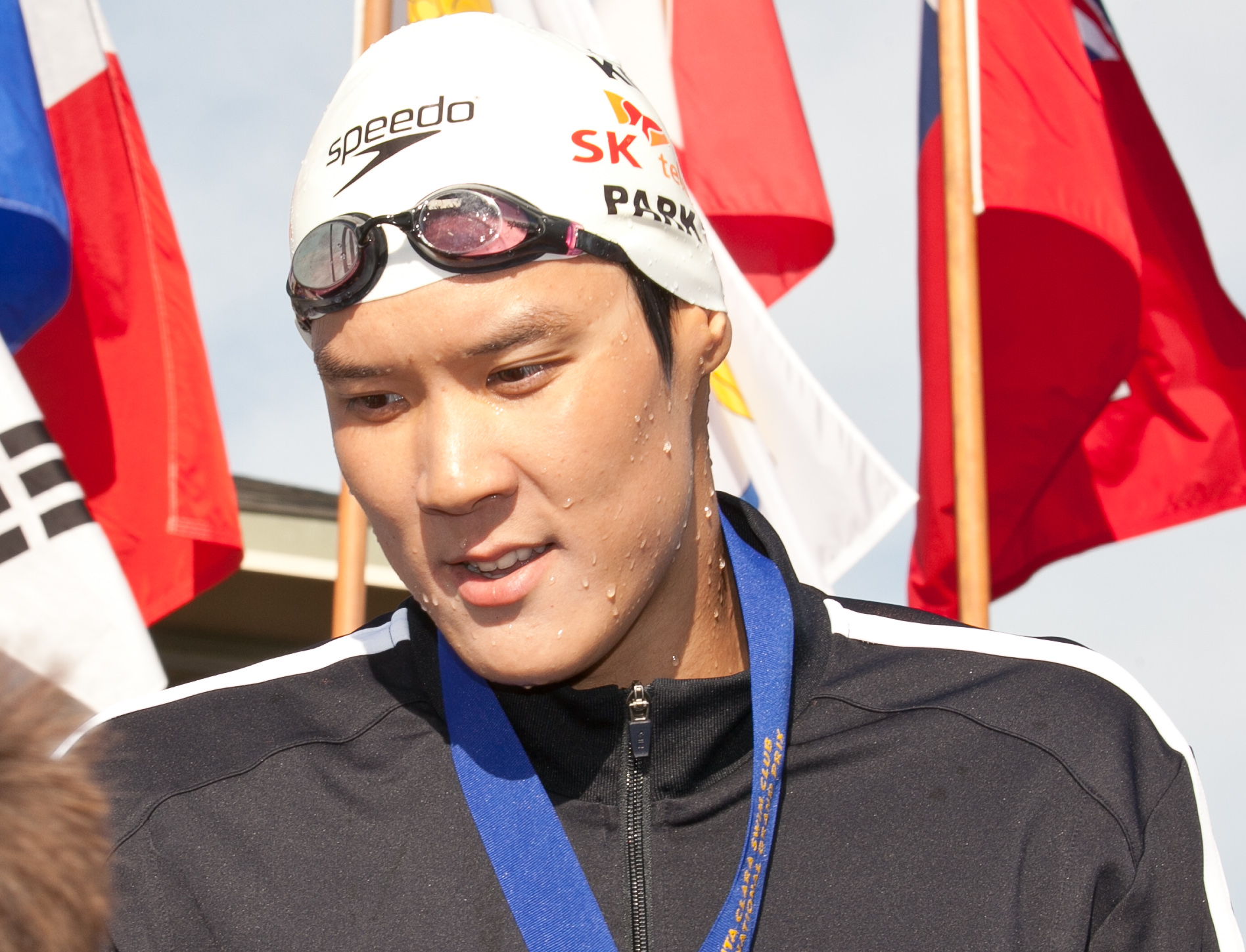 Taehwan Park of Korea impressed at the 2011 Santa Clara Grand Prix by winning the men's 100 meter and 200 meter freestyle. For publication rights, contact JD Lasica at